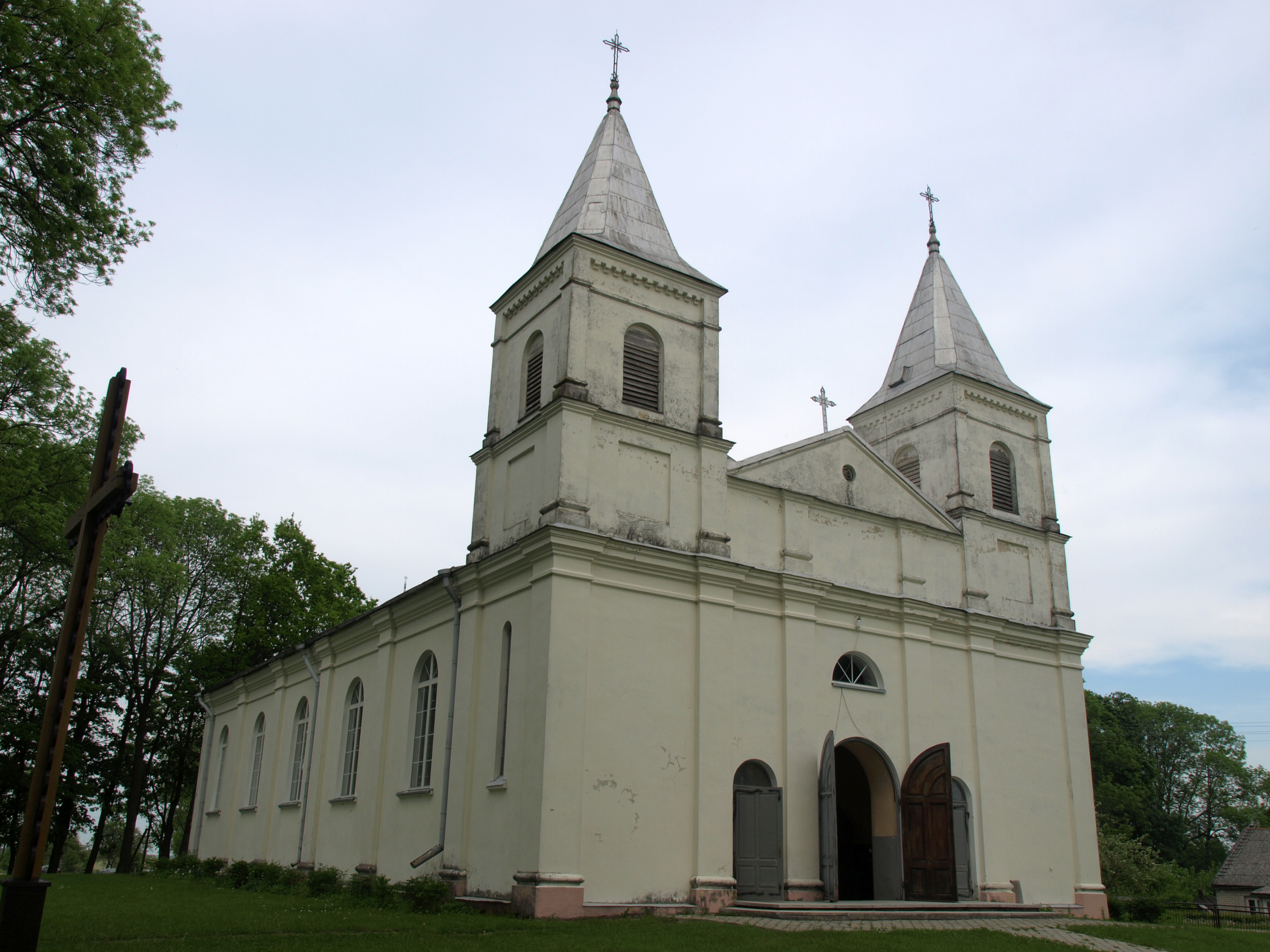 Ūdrija church, Alytus district, Lithuania